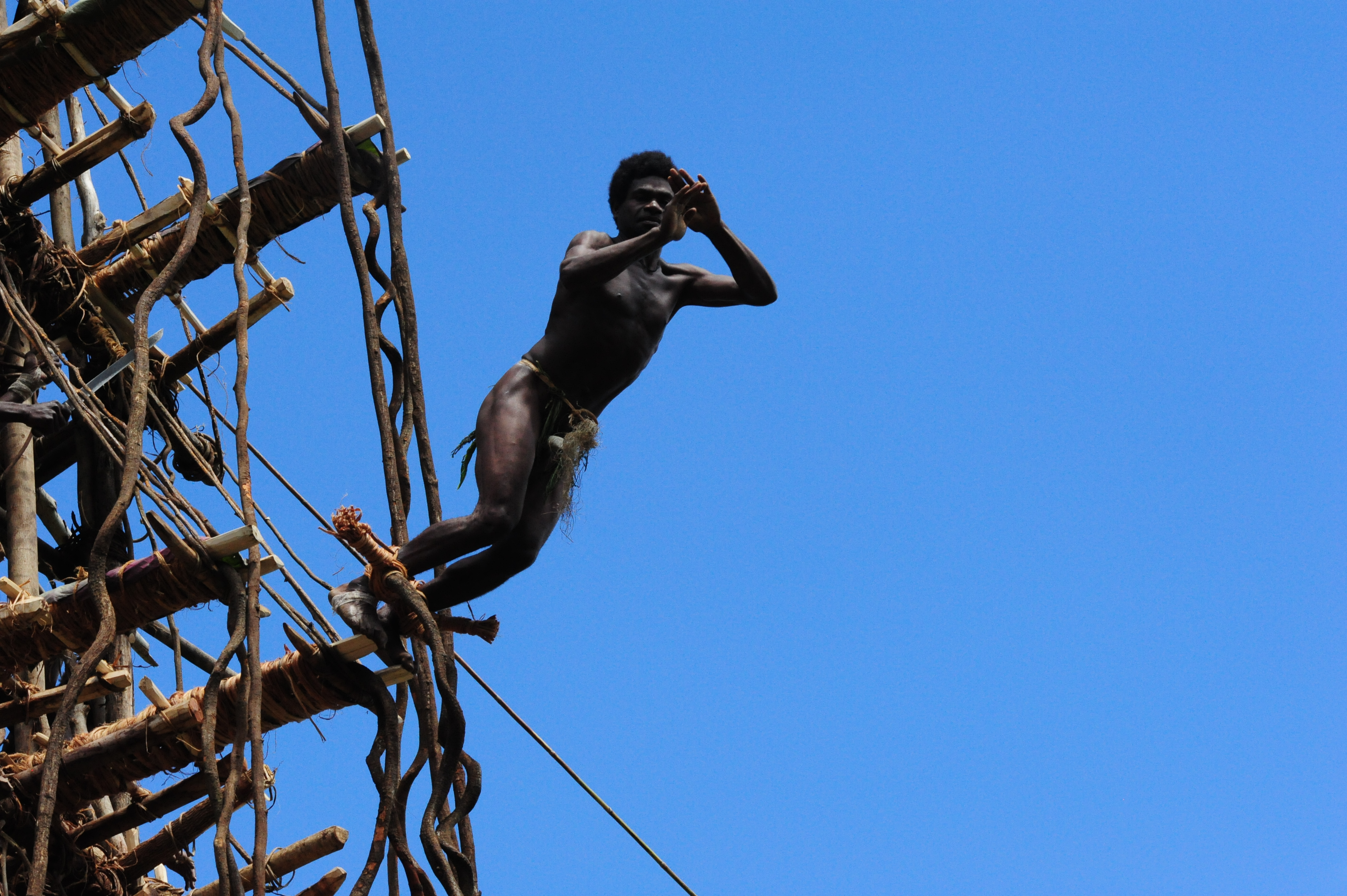 Pentecost Land Diving, photo by Christopher Hogue Thompson